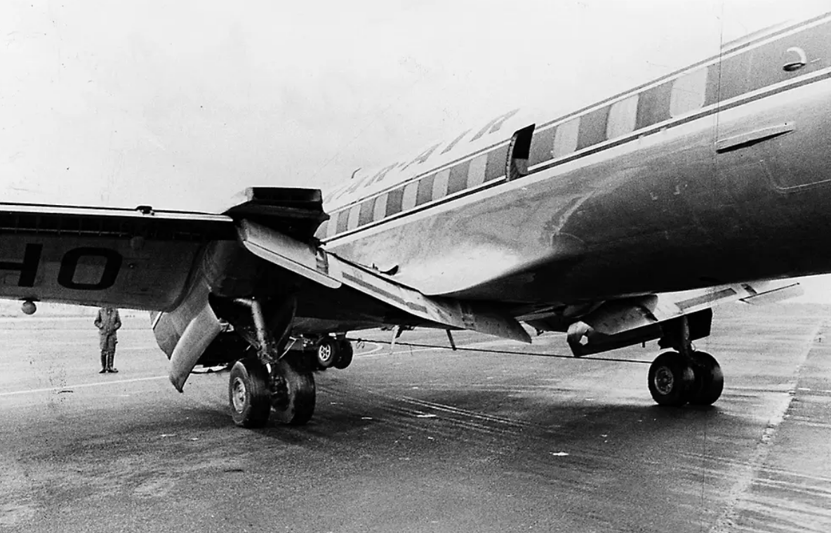 Karair Convair Metropolitan OH-VKN after it bounced three times on landing at the Helsinki Airport.